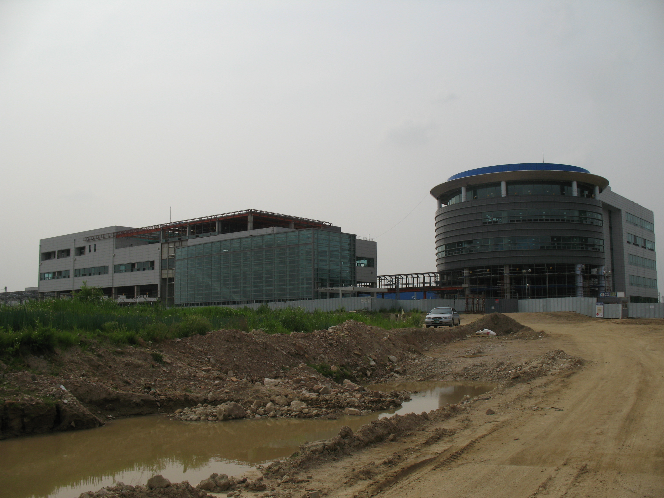 Seoul Subway Line 9 Gaehwa Station and HQ of Seoul Metro Line 9 Corp.